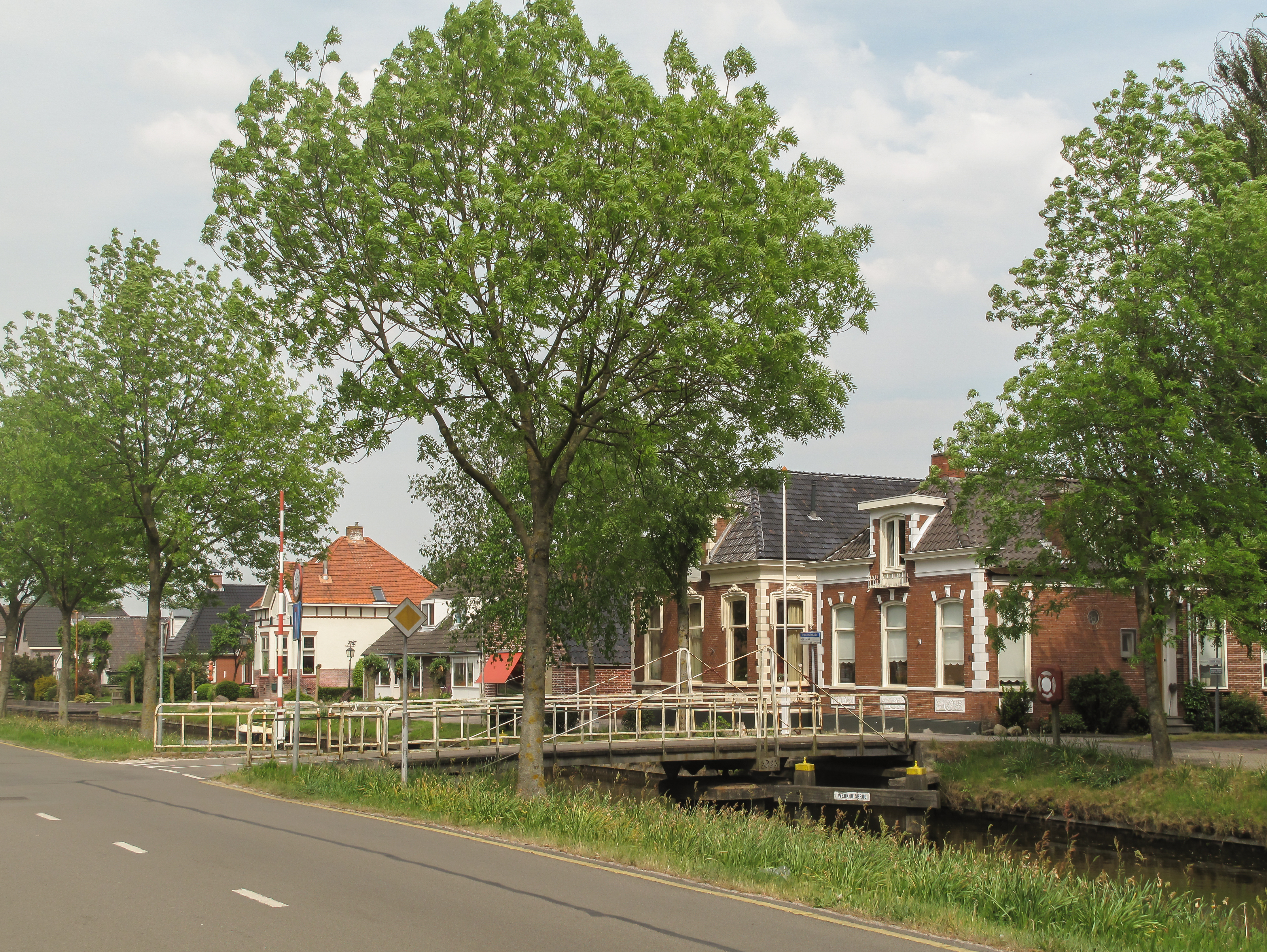 Wildervank, bridge: de Werkhuisbrug